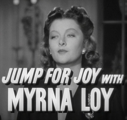 Cropped screenshot of Myrna Loy from the trailer for Shadow of the Thin Man